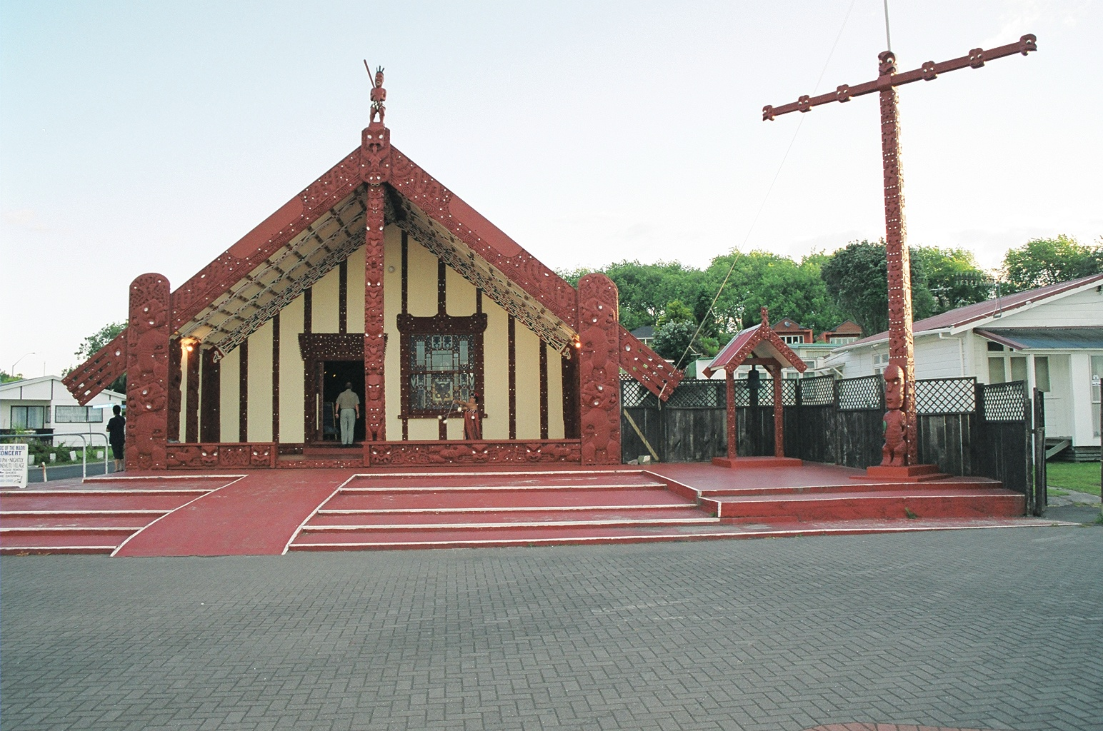 Māori meeting house in Rotorua, January 2001